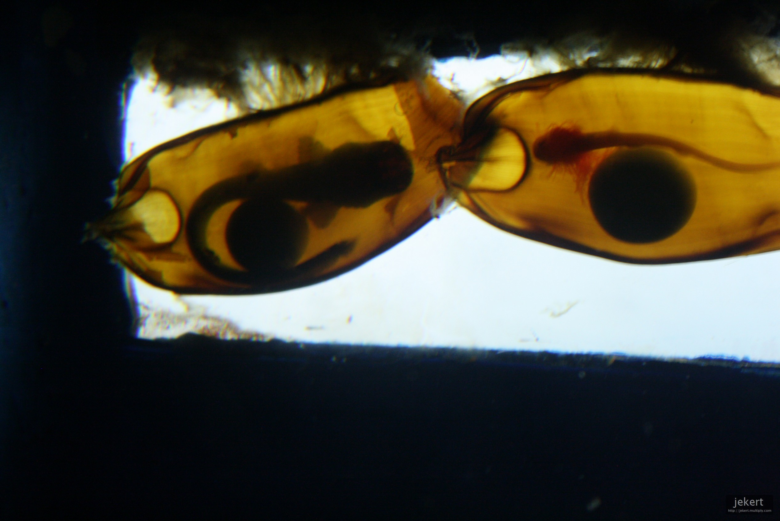 Egg cases of the brownbanded bamboo shark (Chiloscyllium punctatum) at Manila Ocean Park. august 10, 2009